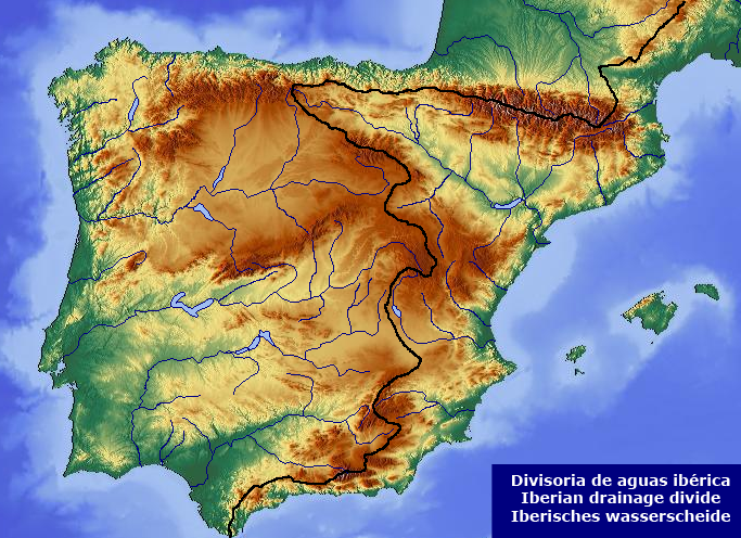 Iberian drainage divide